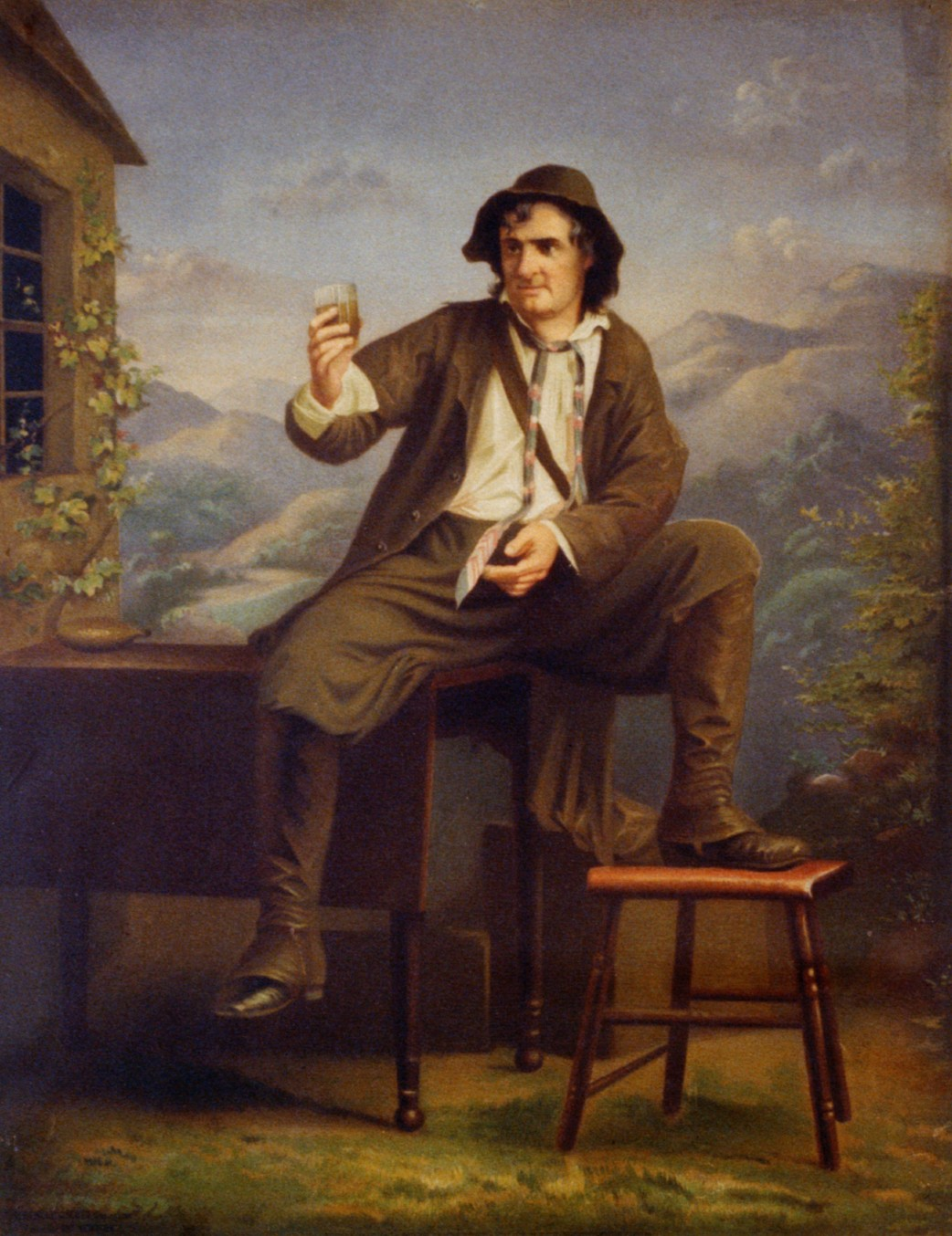 "Dis von don't count." U.S. actor Joseph Jefferson, in his celebrated character of Rip Van Winkle. Associated name on shelflist card is Bencke & Scott. Slightly cropped, using the GIMP, from Library of Congress copy, to remove ragged edge and hard-to-read (newspaper?) clipping, and to convert to JPEG.